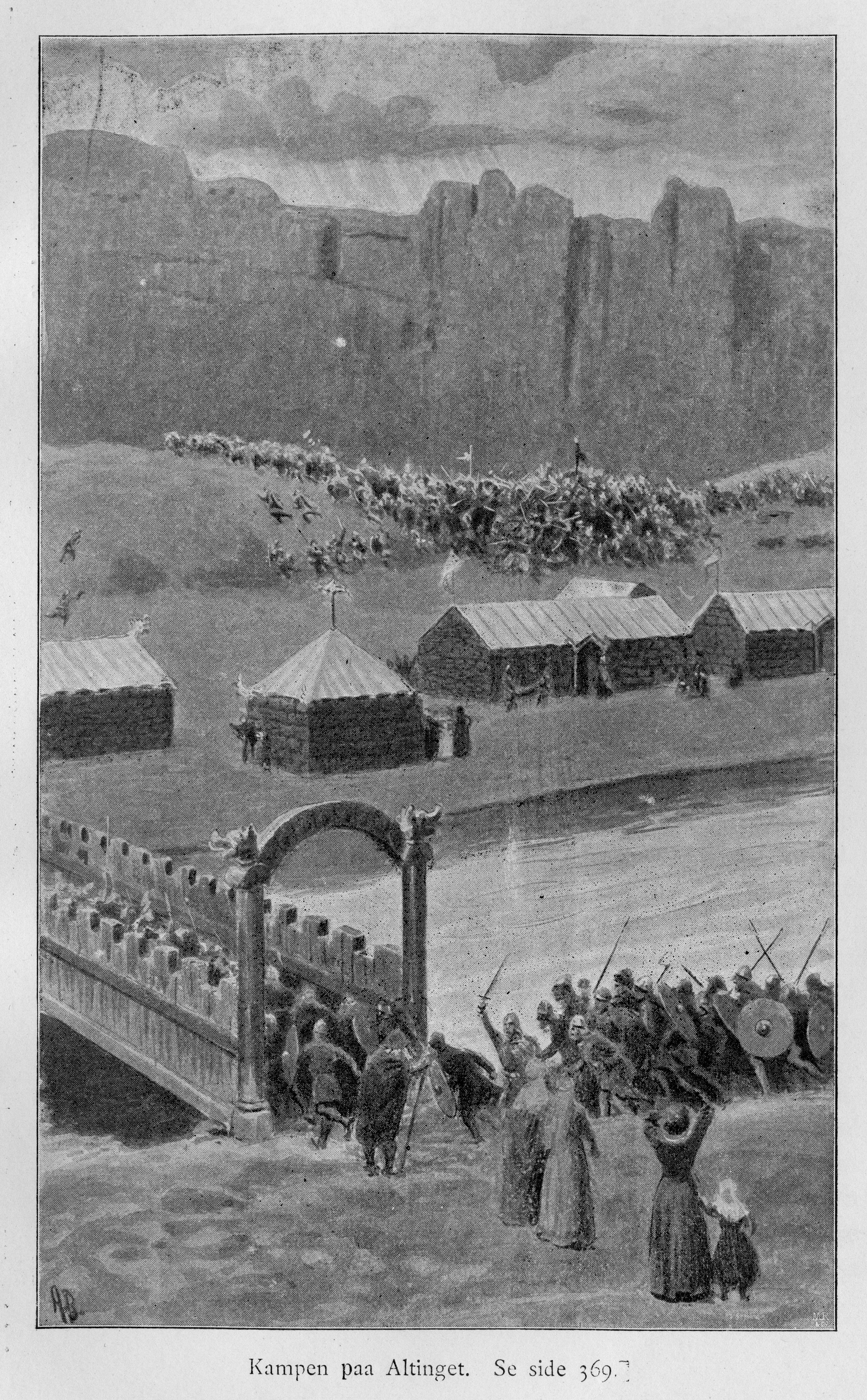 From Njáls saga: The Battle of Alþingi. Illustration from "Vore fædres liv" : karakterer og skildringer fra sagatiden / samlet og udggivet af Nordahl Rolfsen ; oversættelsen ved Gerhard Gran., Kristiania: Stenersen, 1898.